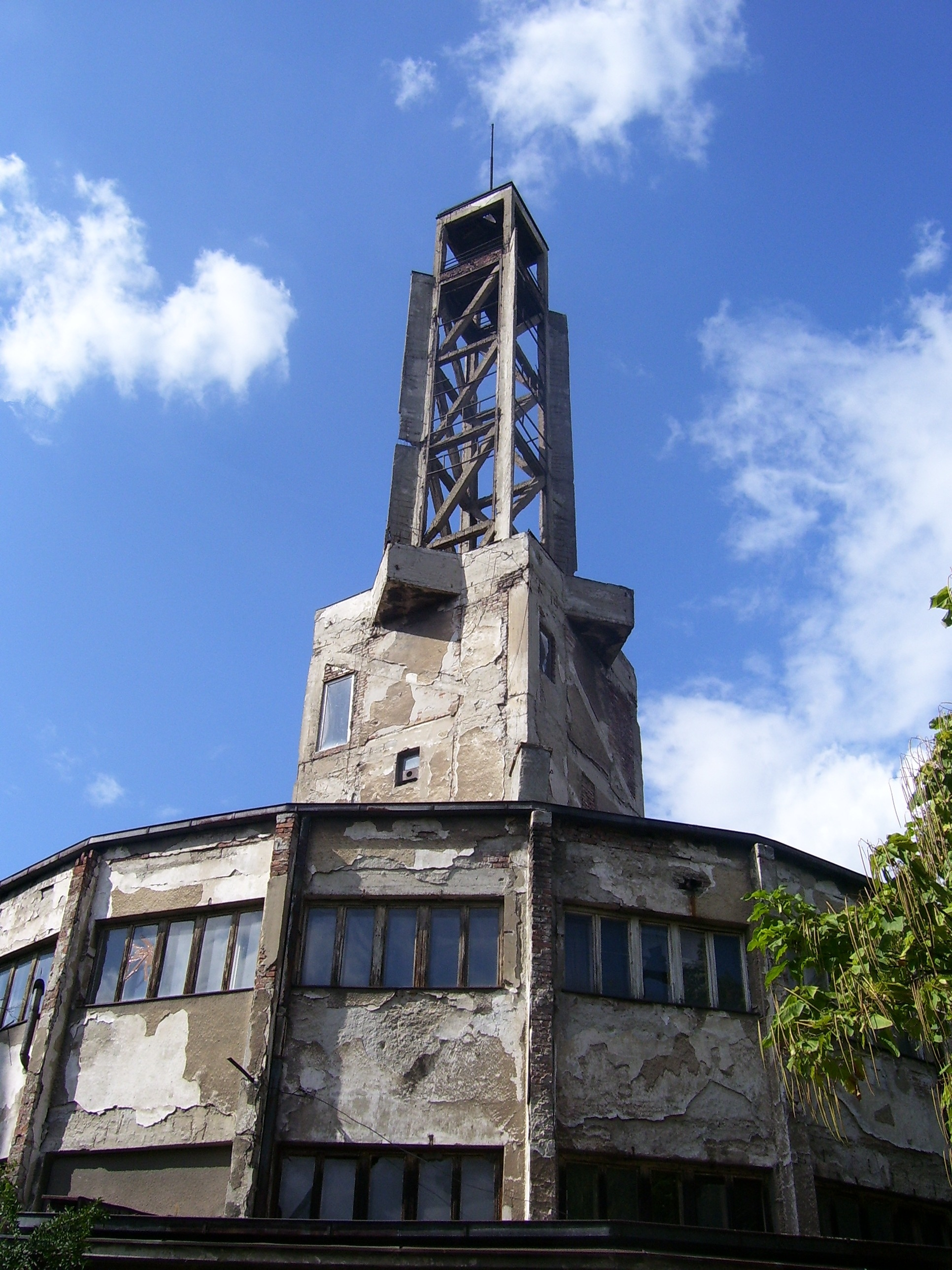 Old fairground central tower, Belgrade, Serbia